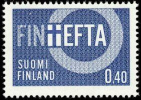 FINEFTA - Finland as an external member of EFTA